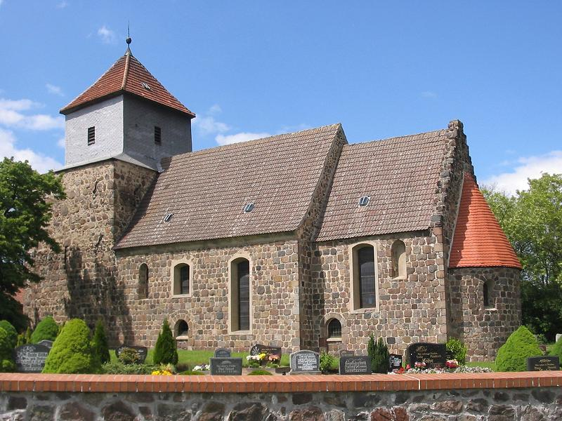 Church Lüsse, built in 13th century, spire in 15th/16th century. Lüsse is an incorporated part of the town Belzig in Brandenburg, Germany.